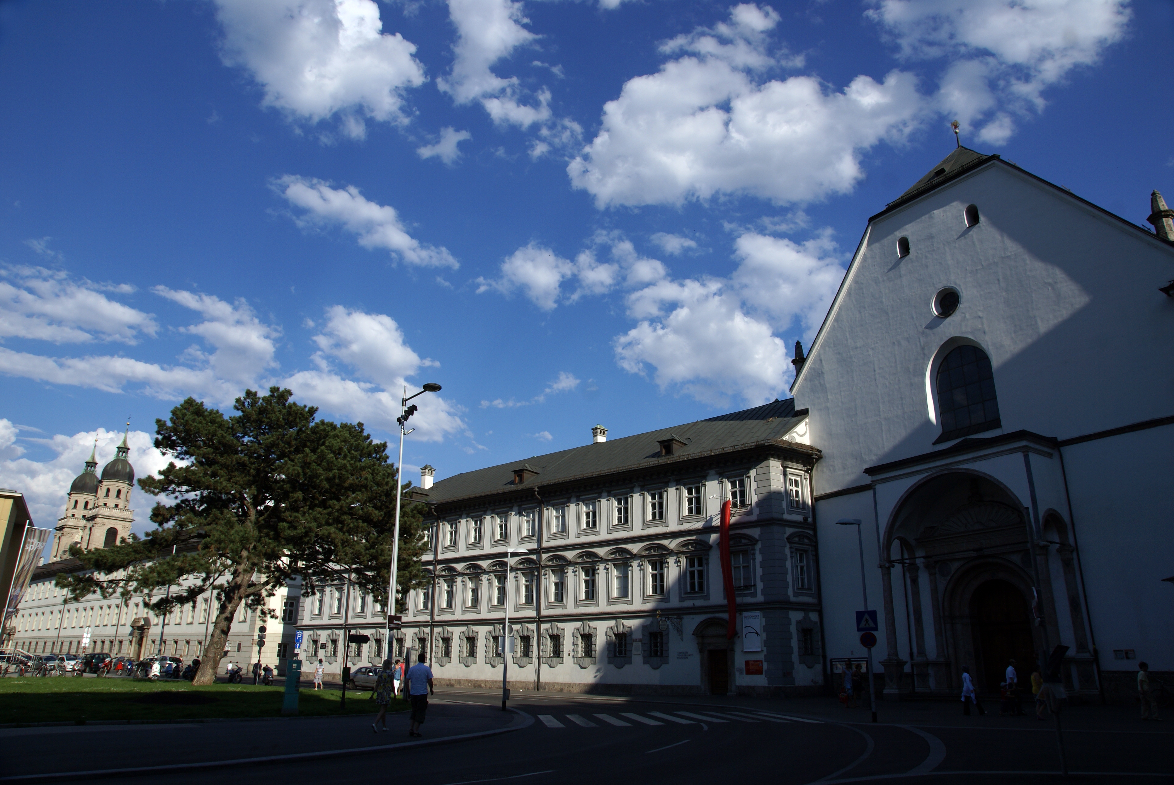 Hofkirche in Innsbruck, Austria This media shows the natural monument in the Tyrol with the ID ND_101_25.